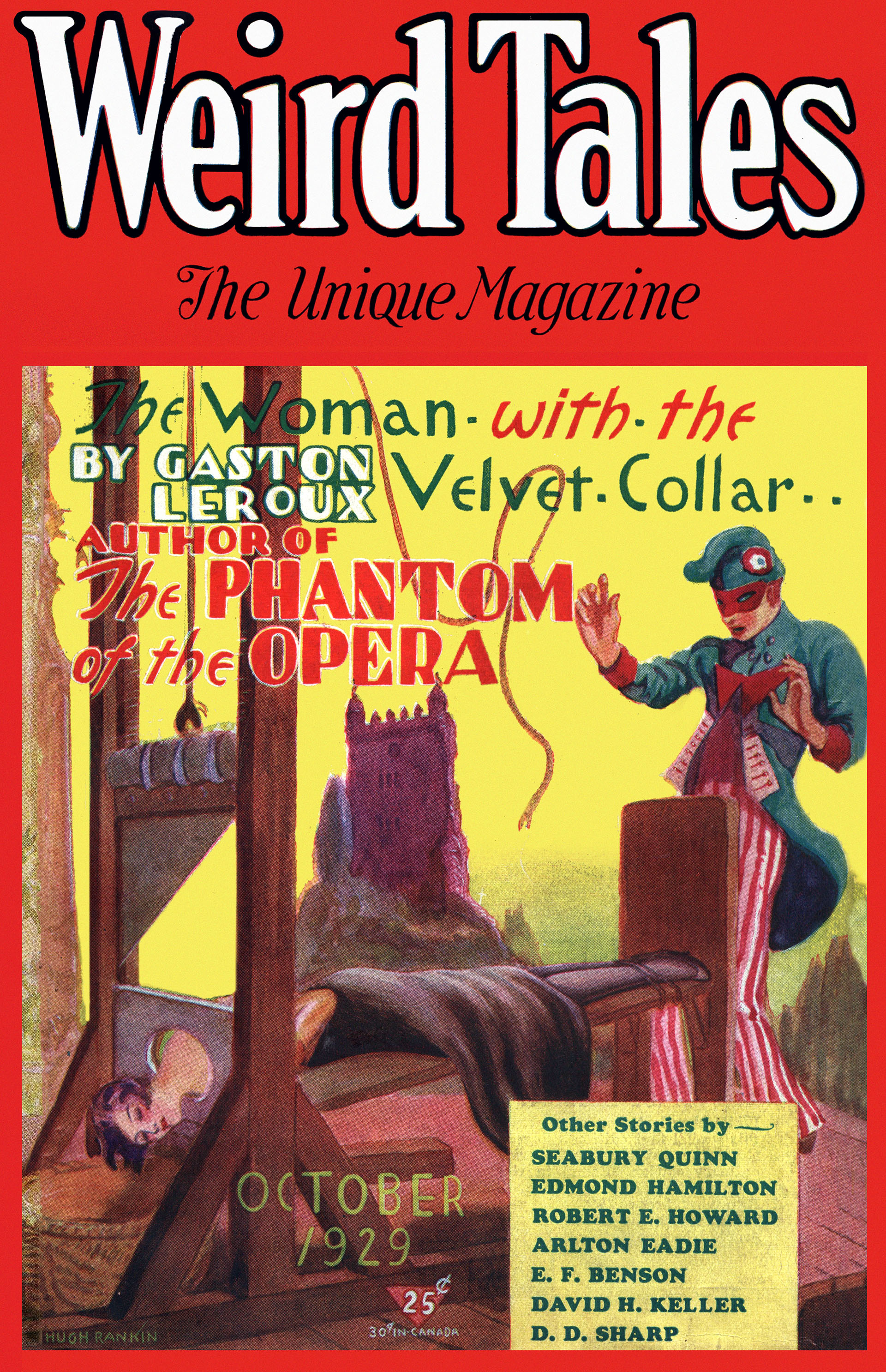 Cover of the pulp magazine Weird Tales (October 1929, vol. 14, no. 4) featuring The Woman with the Velvet Collar by Gaston Leroux. Cover art by Hugh Rankin.